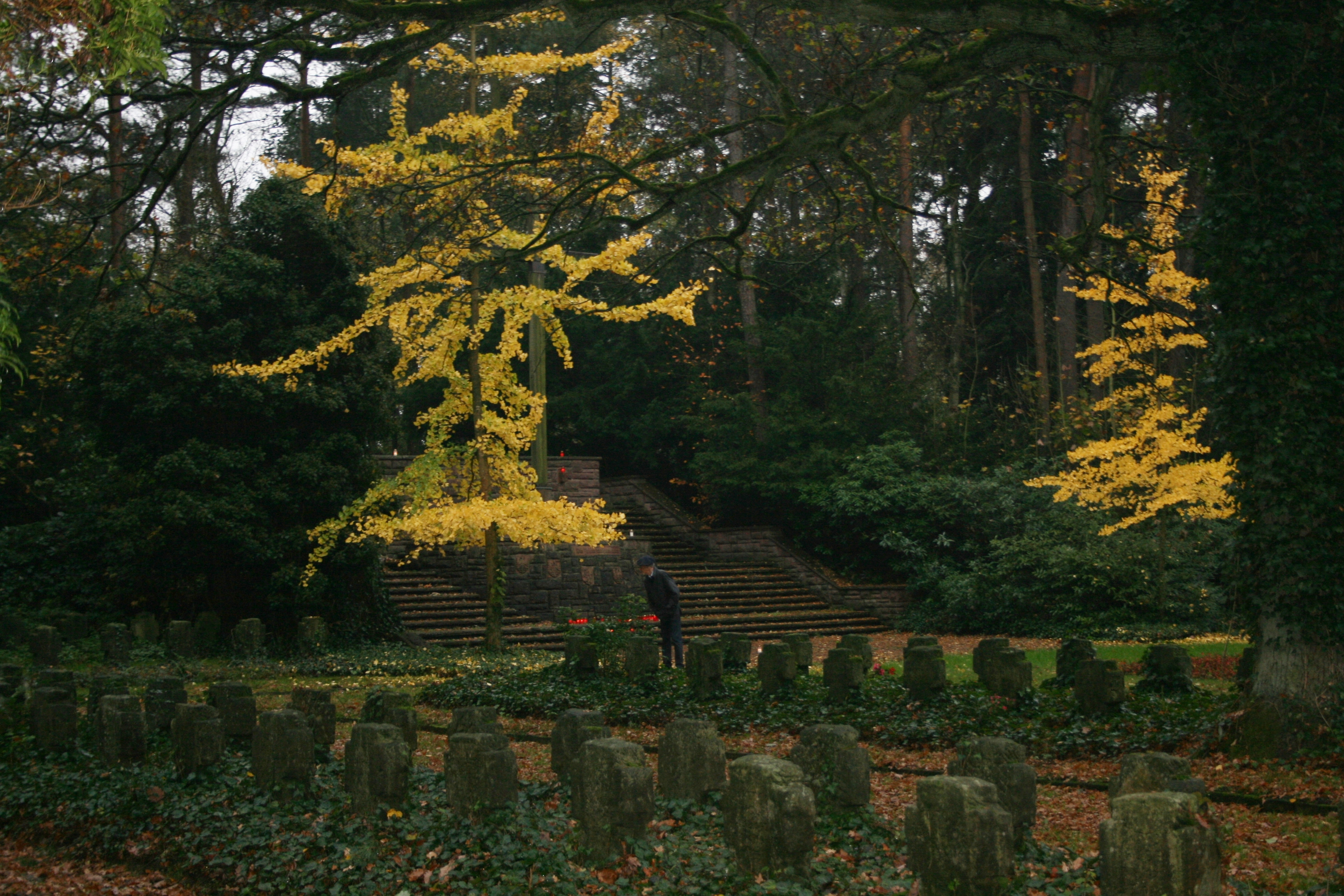 Cemetery Bergedorf: Tombs of soldiers of the Second World War